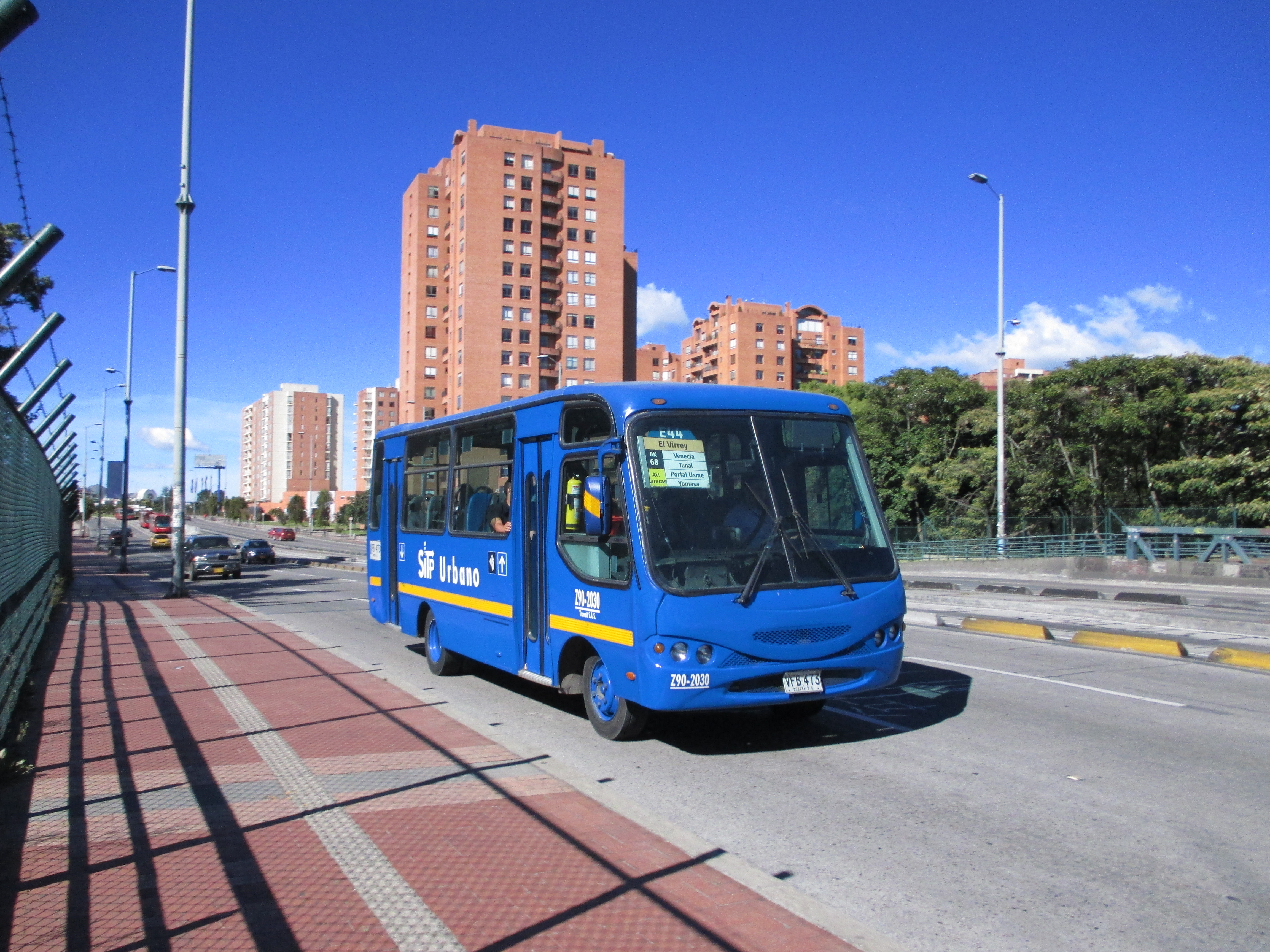 Bogotá